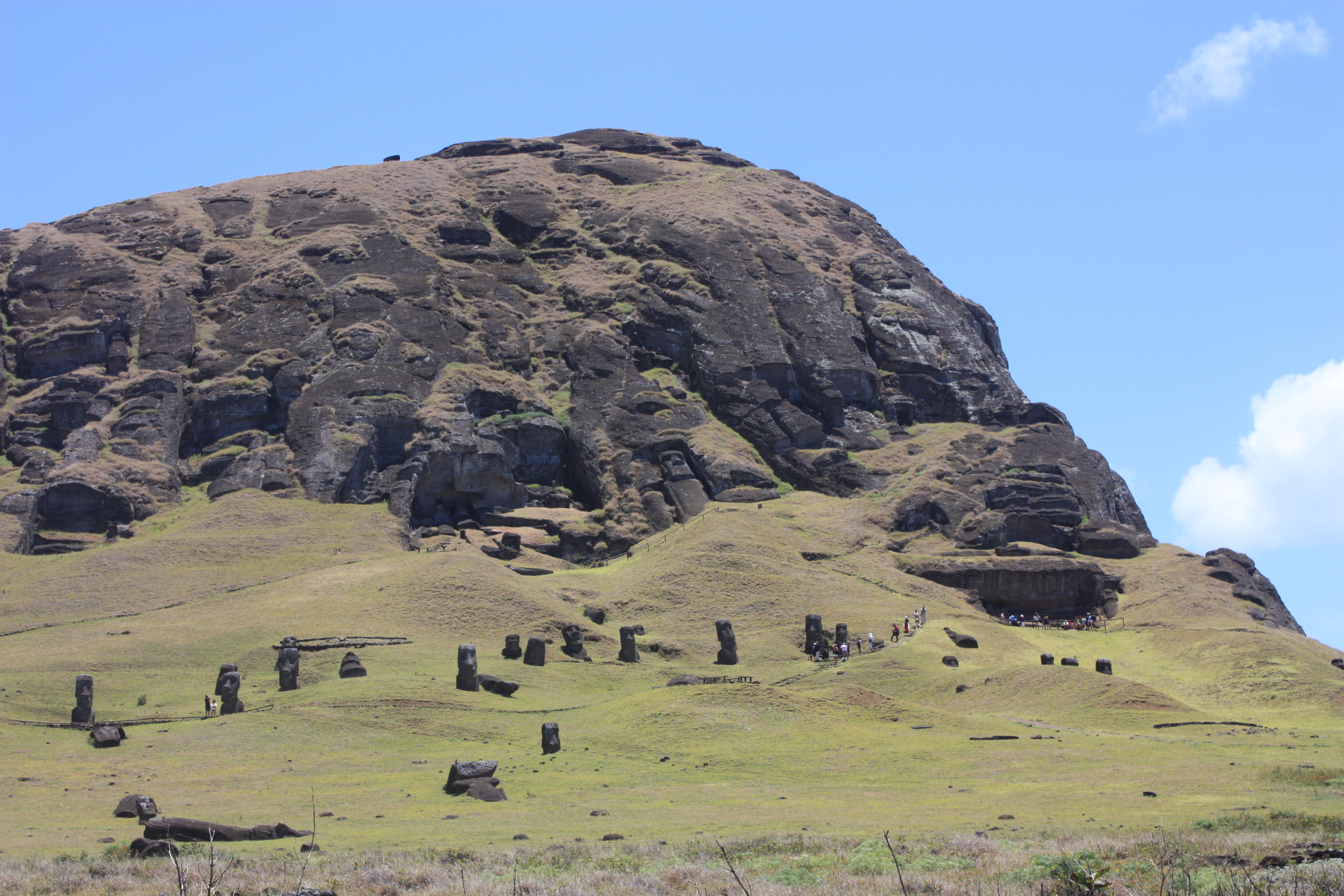 Easter Island, Rano Raraku